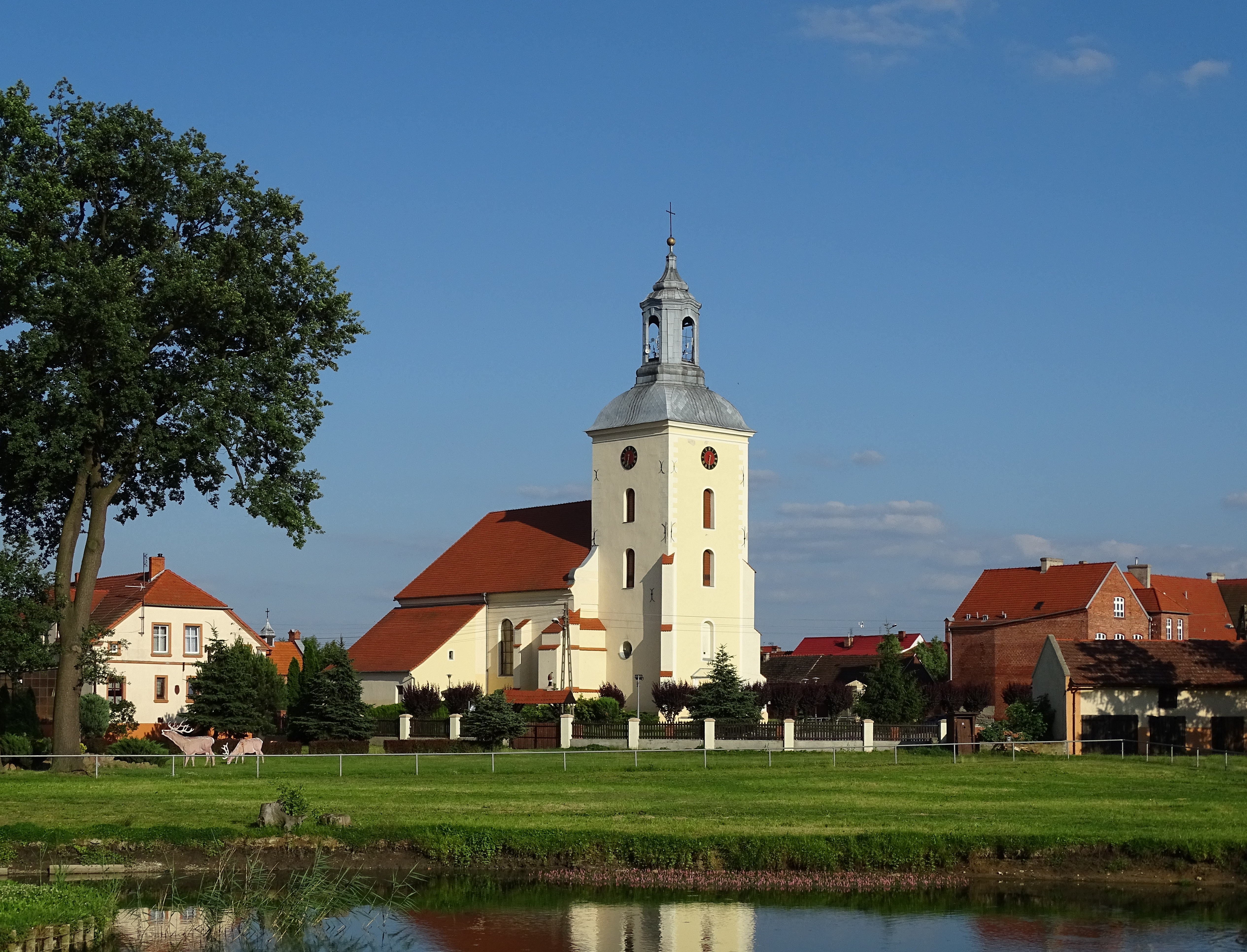 Miejska Górka, Rawicz county, Poland. Parish church of Saint Michael from 1445.